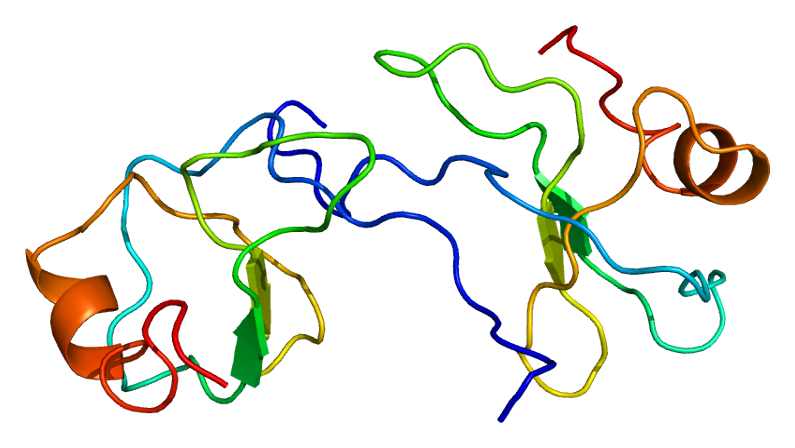 Structure of the CCL3 protein. Based on PyMOL rendering of PDB 1b50.